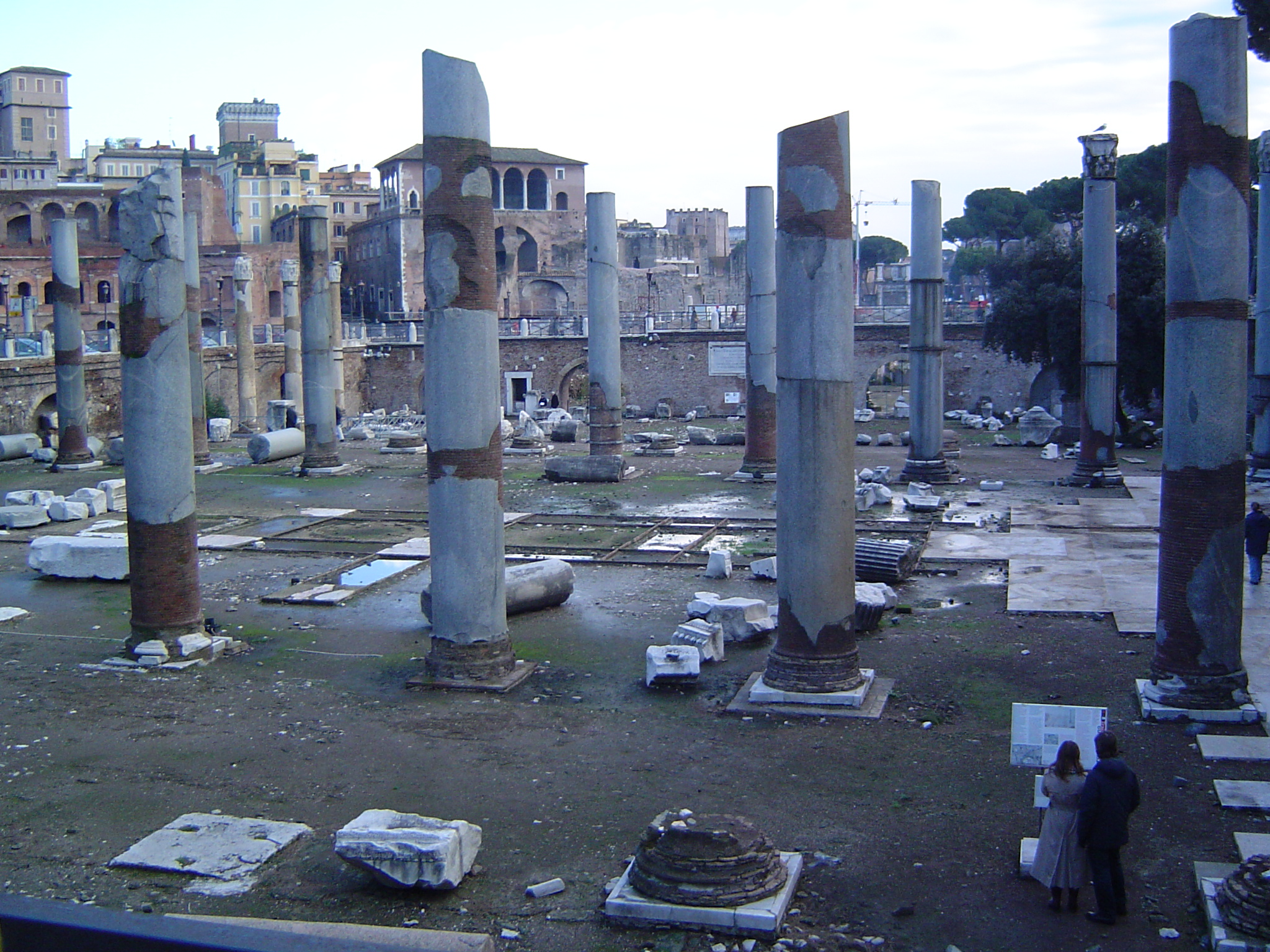 Remains of the Basilica Ulpia, Forum of Trajan, Rome